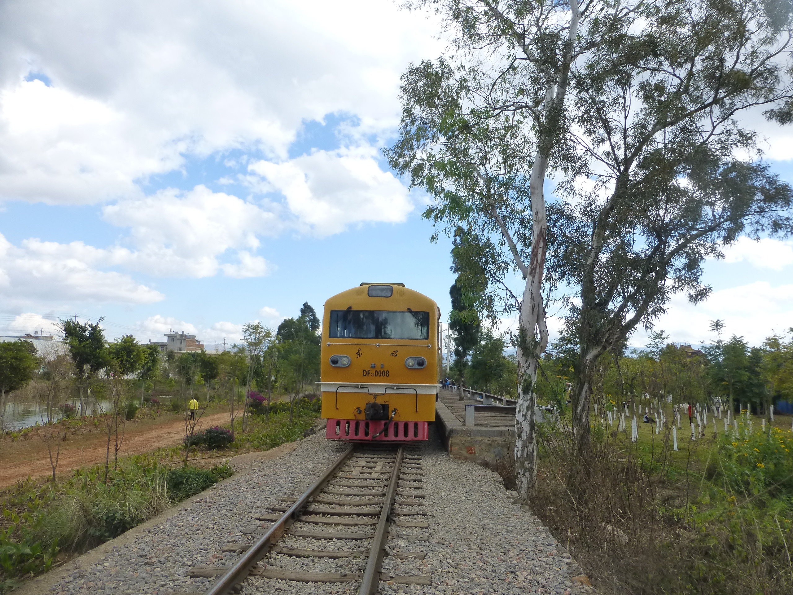 Shuanglongqiao Railway Station, on the Meng-Bao Railway, near the Shuanglong (Double Dragon) bridge southwest of Lin'an Town, Jianshui County. It is a small platform for the tourist train that runs between Lin'an and Tuanshan